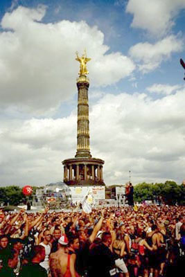 Loveparade in Berlin